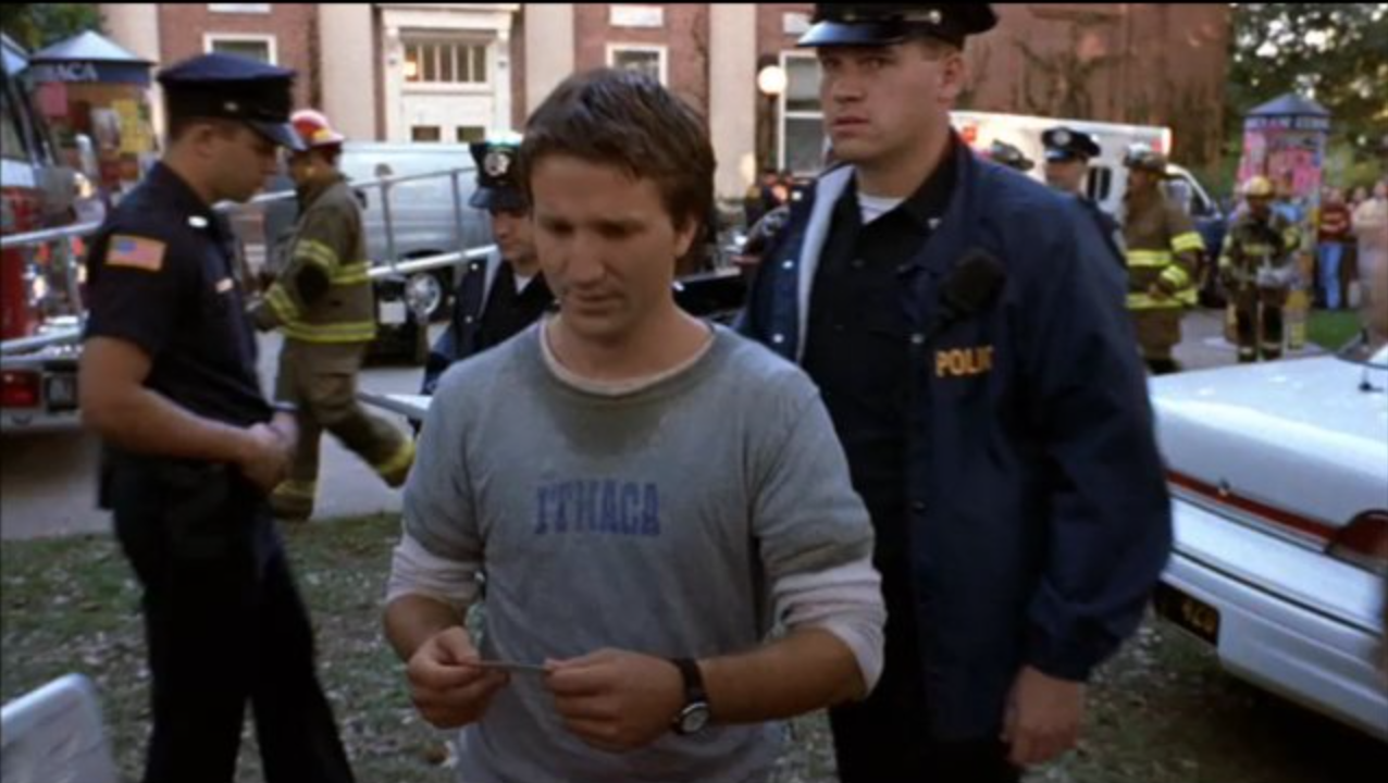 Taken with 35 mm camera